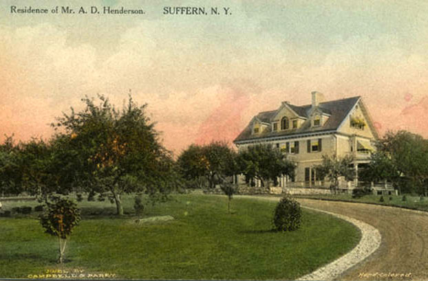 Residence of Mr. A. D. Henderson, Suffern, N.Y.